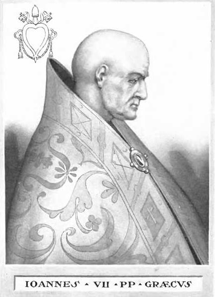 Portrait of Pope John VII c. 650 – October 18, 707), pope from 705 to 707. Born in Calabria of Greek nationality.